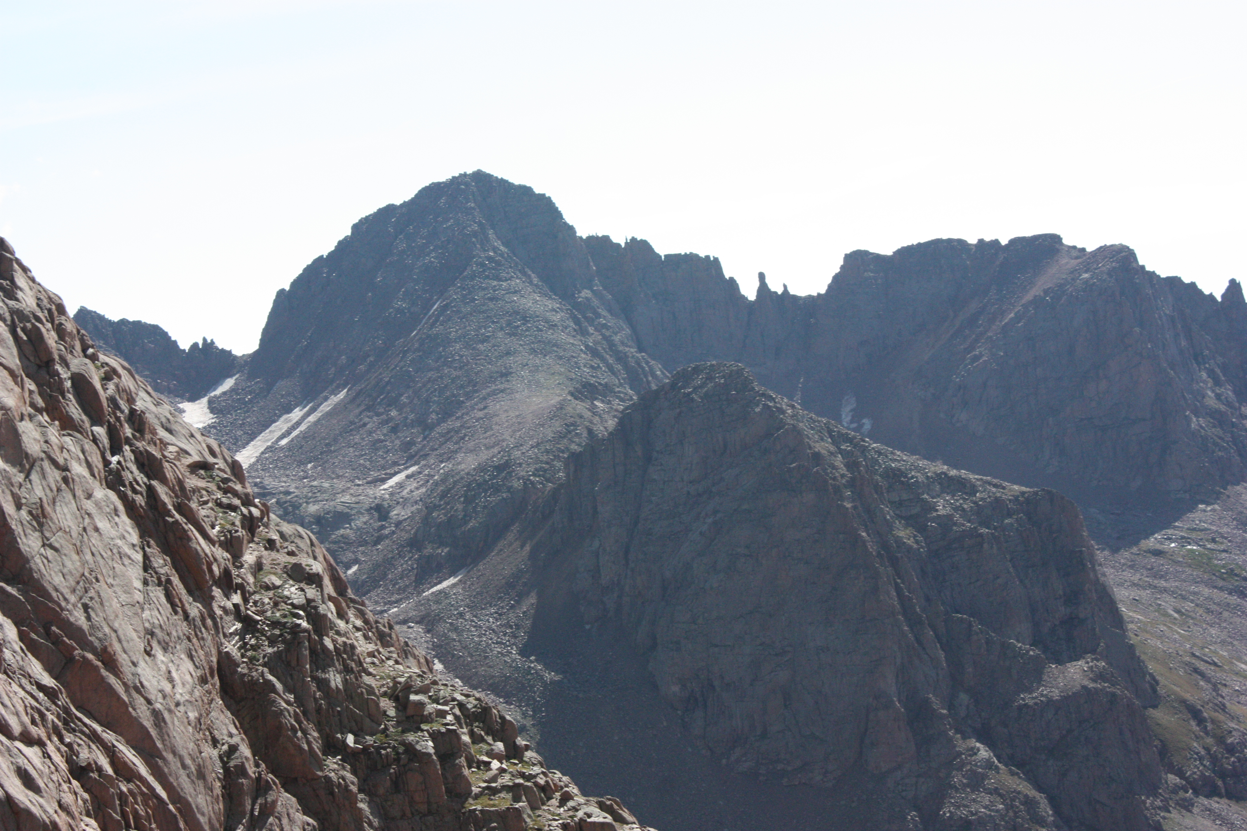 Backpacking trip to Chicago Basin in August, 2009